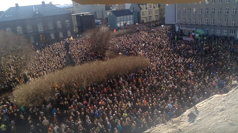 Protests against Iceland Prime Minister Sigmundur Davíð Gunnlaugsson, fueled by the Panama Papers.